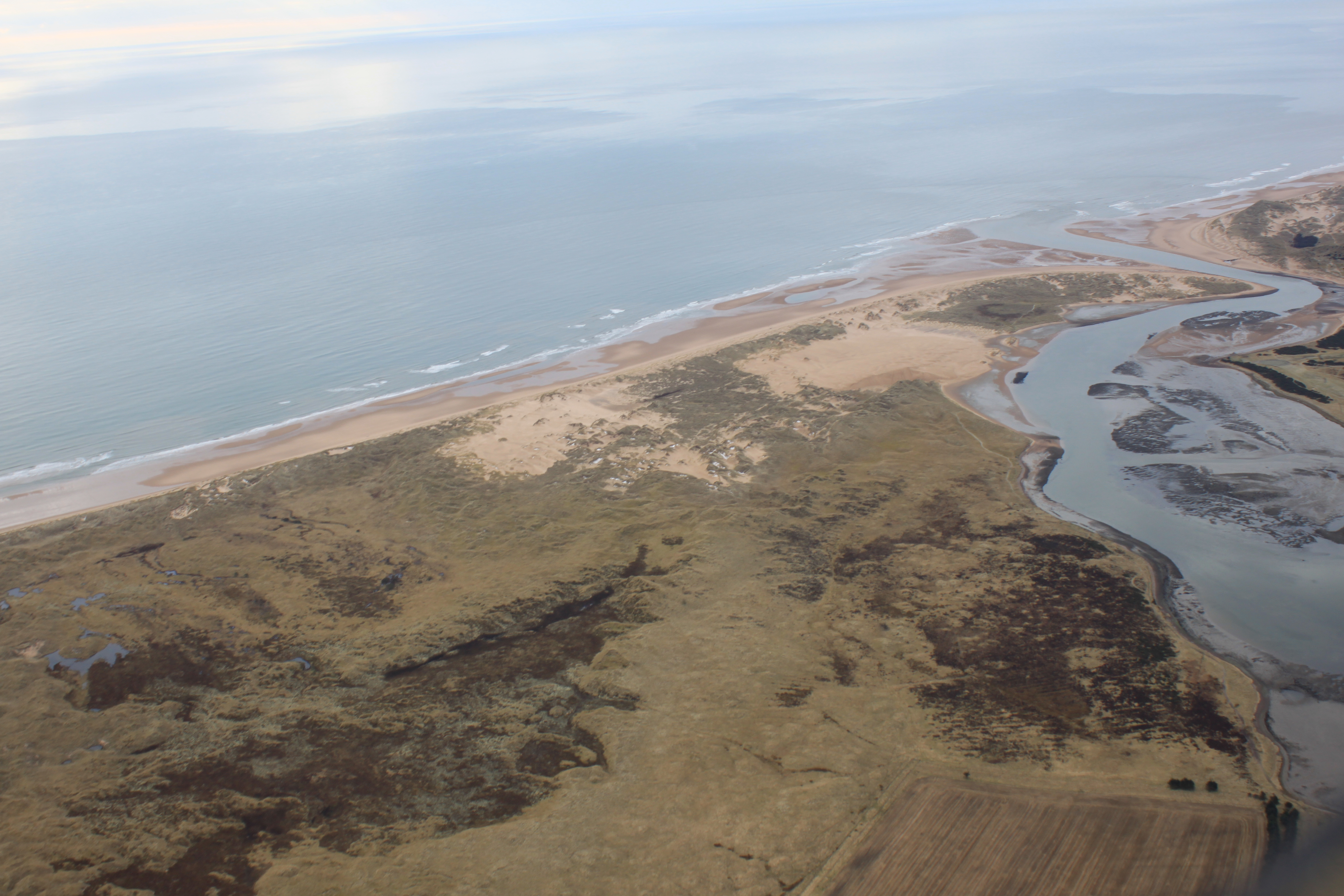 Photo by cabro Aviation